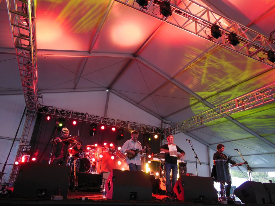 The Elders perform at The Dublin Irish Festival 2012.